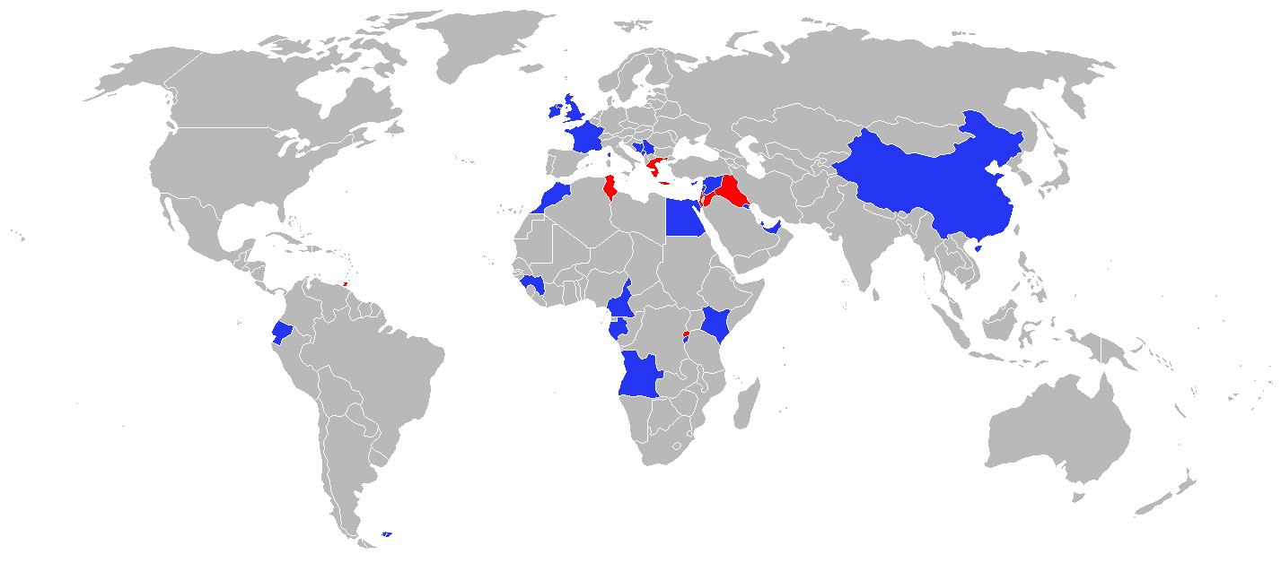 Map of military operators of the Aerospatiale Gazelle (SA.341/342). Current operators are in bright red, former operators in dark red - in 2007 -.